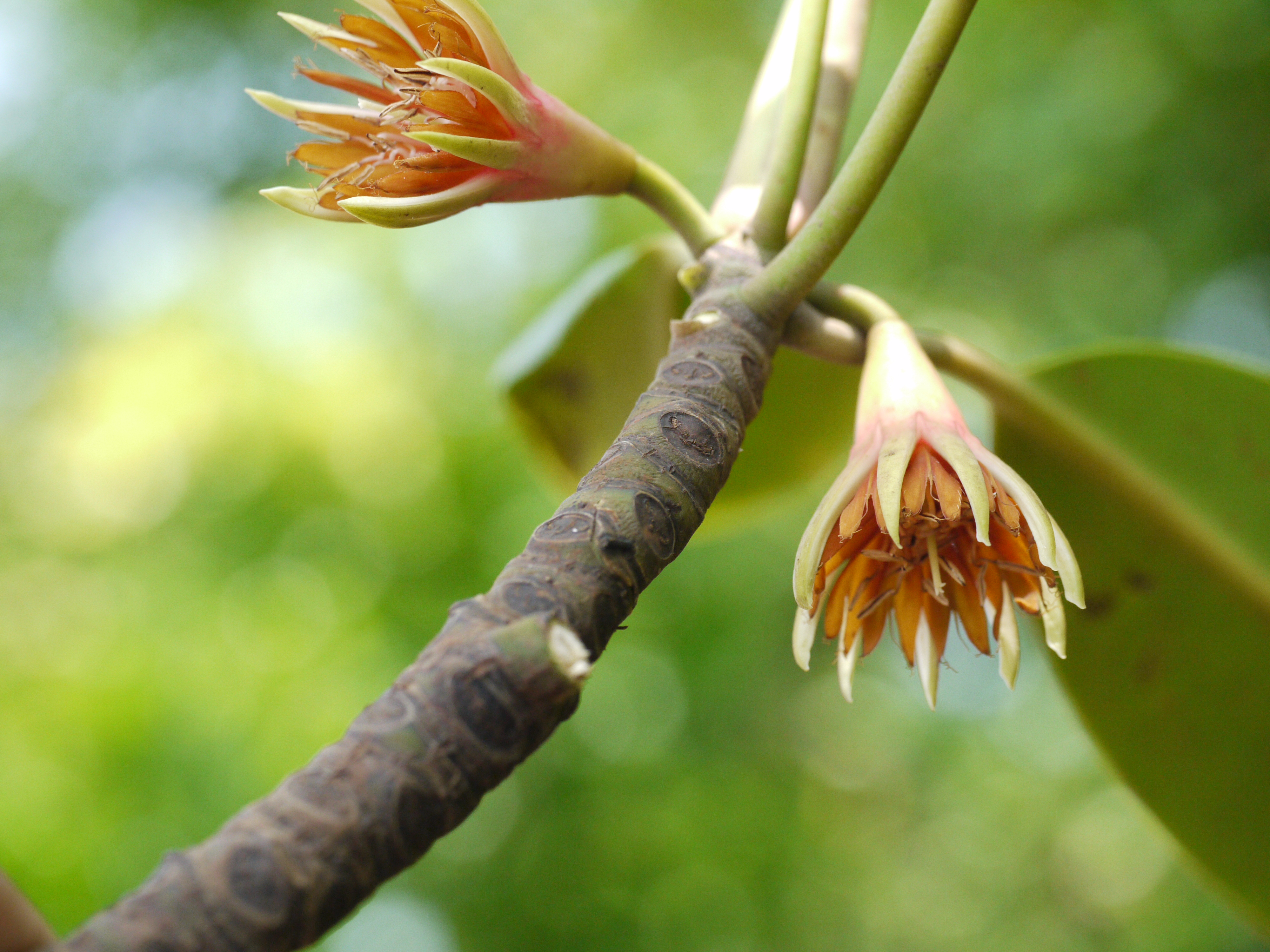 Rhizophoraceae (Burma mangrove family) » Bruguiera gymnorrhiza (L.) Savigny broog-wee-ER-a -- named for Jean Guillaume Bruguiere, French biologist and explorer jim-no-RY-zuh -- from the Greek gymnos (naked) and rhiza (root) commonly known as: black mangrove, Burma mangrove, large-leafed mangrove, oriental mangrove • Bengali: kankra, natinga • Gujarati: સનવર sanavar • Kannada: ಕೊಳಚೆ ಗಿಡ kolache gida • Konkani: इंप्ळी impli • Malayalam: കണ്ടല്‍ kantal • Marathi: झुंबर zumbar • Oriya: banduri • Tamil: sigapukokandam • Telugu: దుద్దుపొన్న dudduponna Native of: e & s Africa, e Asia, India, Sri Lanka, Indo-China, Malesia, n & e Australia, w Pacific References: Flowers of India • bioSearch v 1.2 • NPGS / GRIN • ENVIS - FRLHT